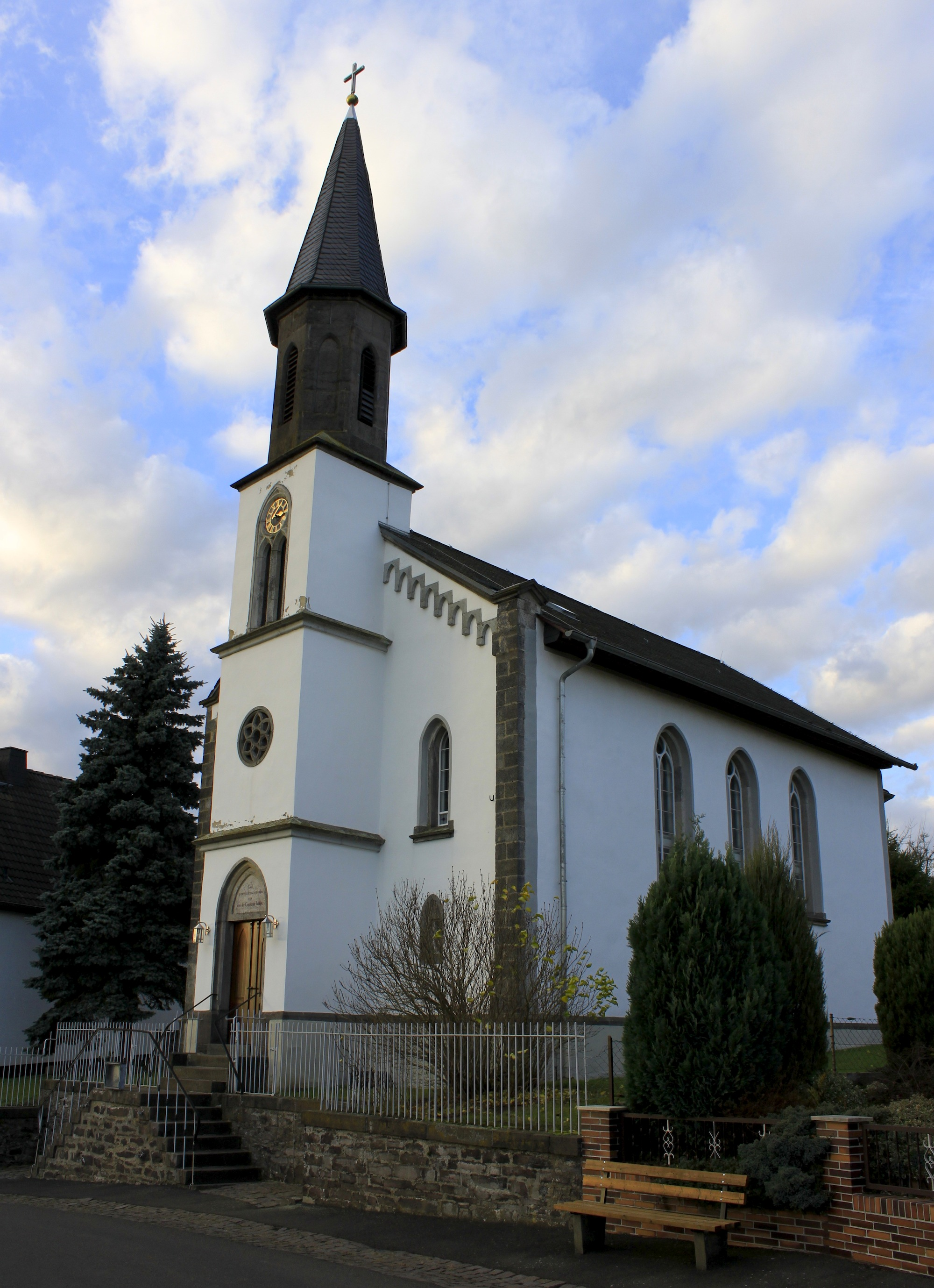 Laubach - Röthges (Hesse), church